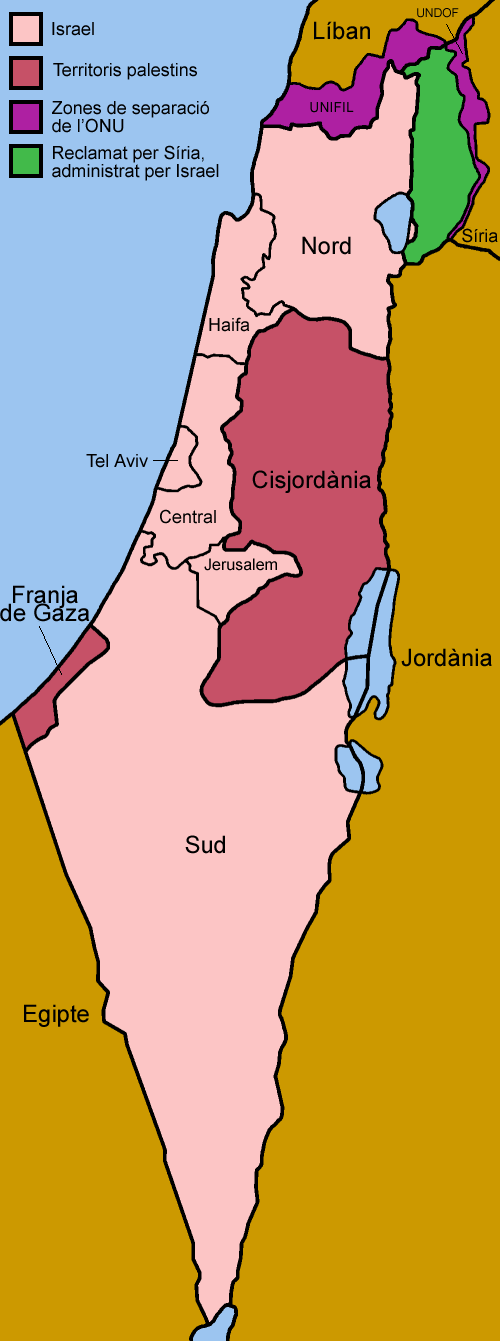 Catalan version of Israel_districts_named.png